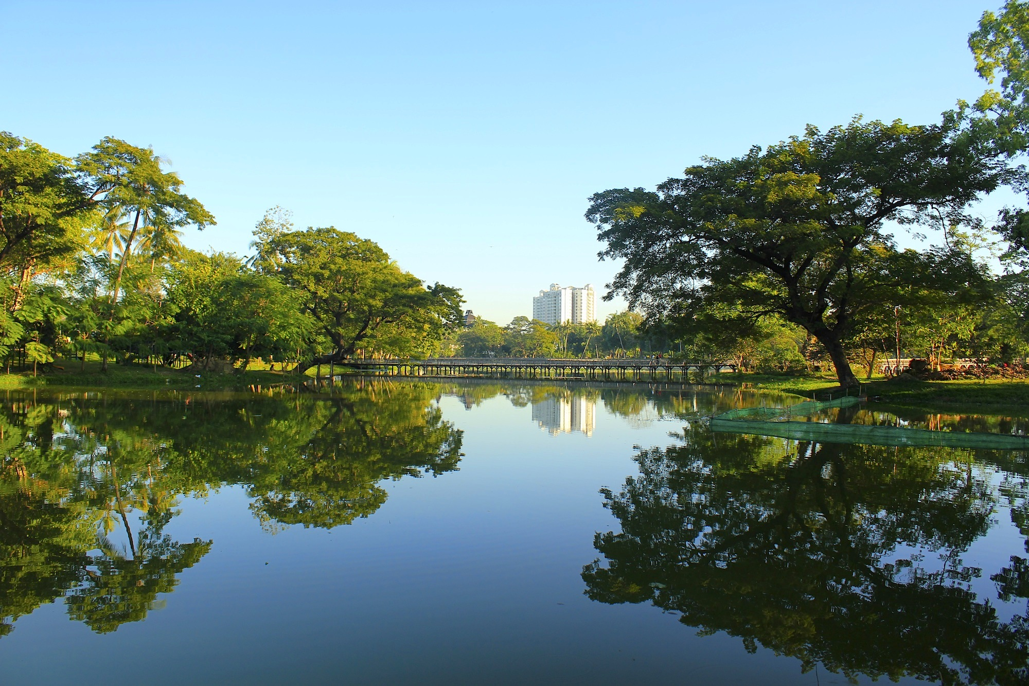 Kandawgyi lake is seen in Yangon, Myanmar on 12 January 2011. မြန်မာဘာသာ: ကန်တော်ကြီး ကန်ကို ရန်ကုန်မြို့၊ မြန်မာနိုင်ငံ တွင် ဇန်နဝါရီလ ၁၁ ရက်၊ ၂၀၁၁ ခုနှစ်က တွေ့မြင်ရစဉ်